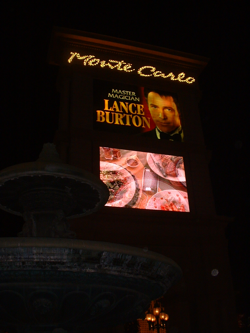 Neon sign outside the Monte Carlo casino, Las Vegas